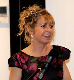 Photo of artist Jacqui Grantford at the opening of her exhibition 'A Show of Hands'